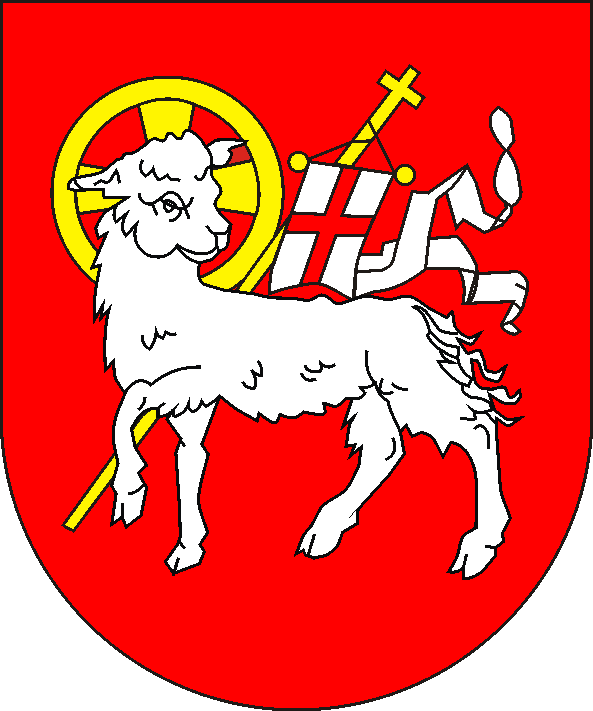 Coats of arms of the bishopric of Brixen